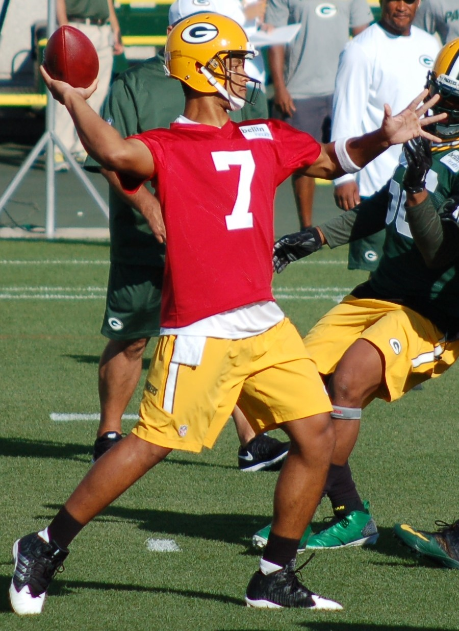 2015 Packers training camp